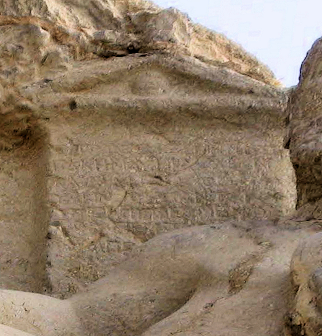 Herakles inscription at Behistun